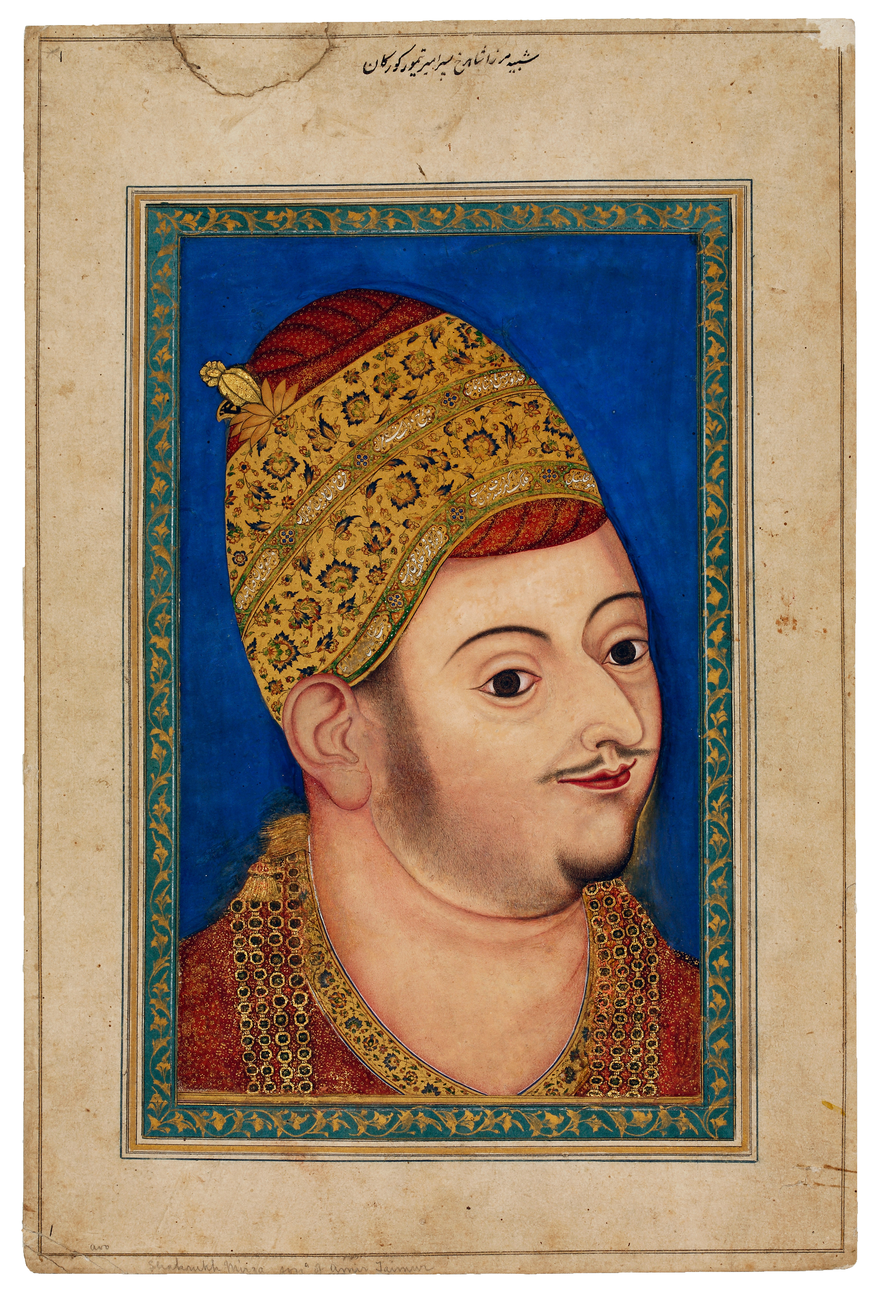 Sultan-Ibrahim-Adil-Shah-II-of-Bijapur._Miniature._Deccan,_Bijapur;_c._1590._The_David_Collection.